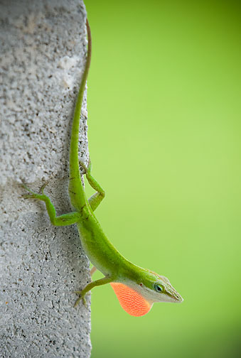 Green Anole, Texas